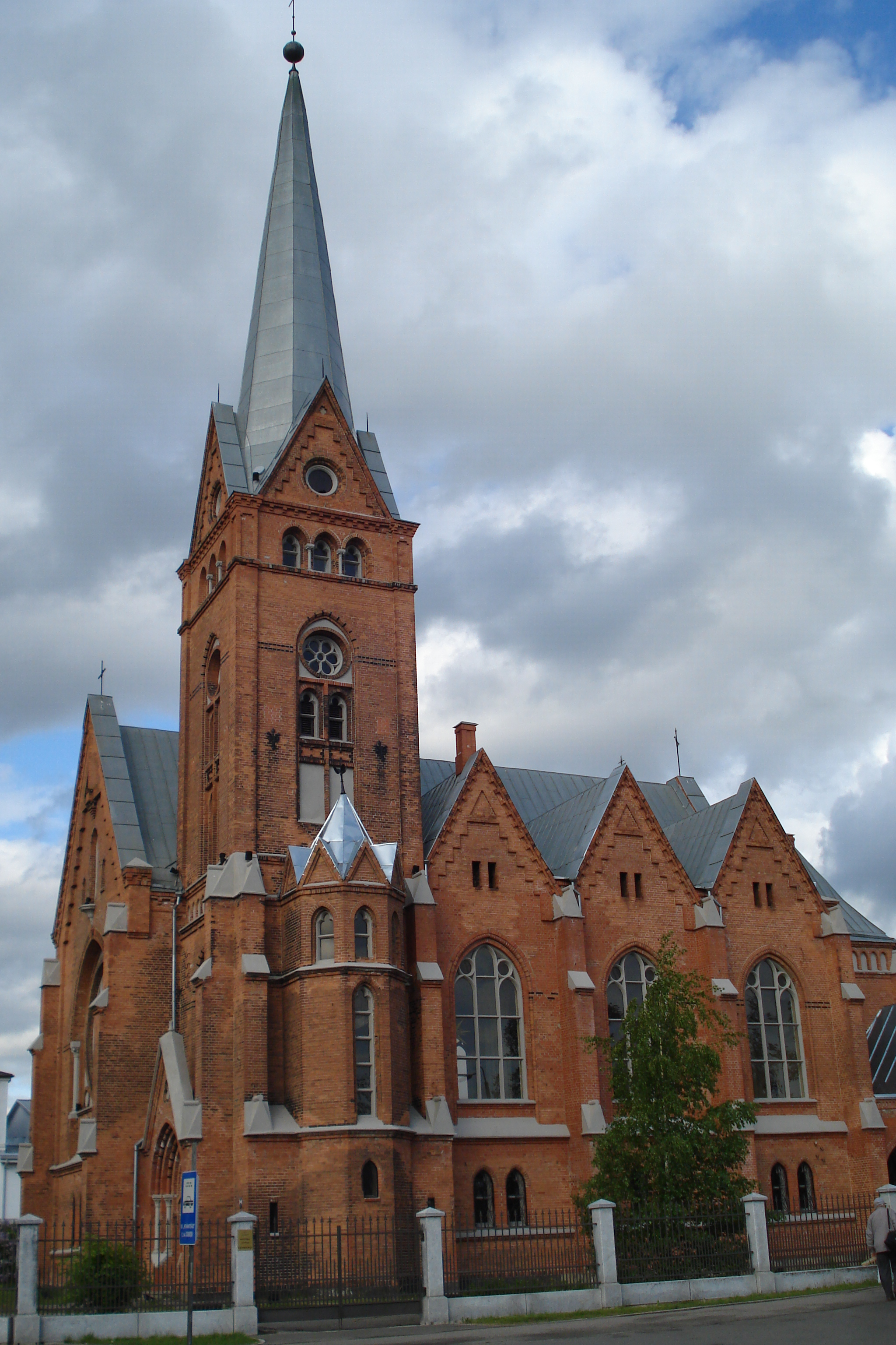 Daugavpils Evangelical Lutheran Cathedral of Martin Luther. Address: 18. novembra iela at Varšavas iela